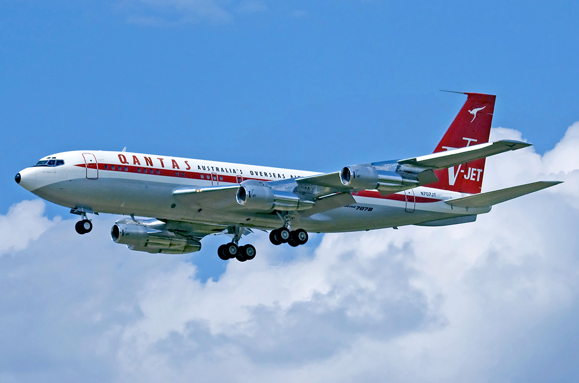 CANON 400D & 100-400IS LE BOURGET 20/06/2007